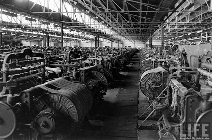 Adamjee Jute Mills 1953